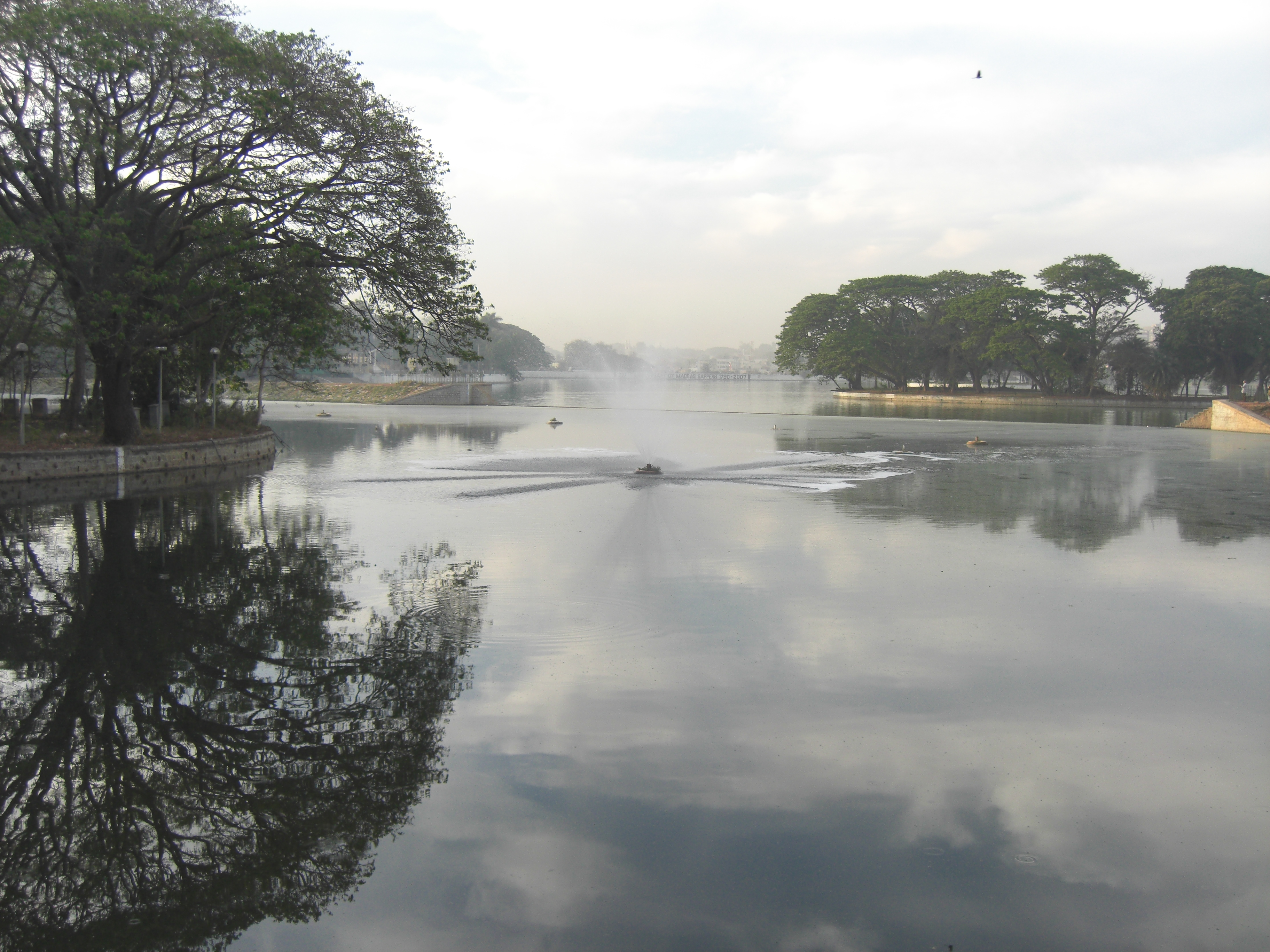 Ulsoor Lake Reflections Shot these during our morning walks near Ulsoor lake , bangalore